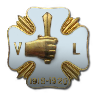 Insignia of the Union of Participants in the Estonian War of Independence